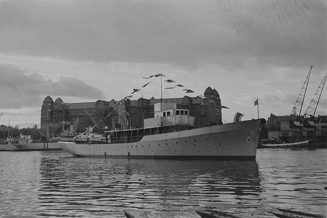 Norwegian minesweeper HNoMS Rauma right after launch from the Nyland shipyard in Oslo. Oslo Harbour Warehouse in the background